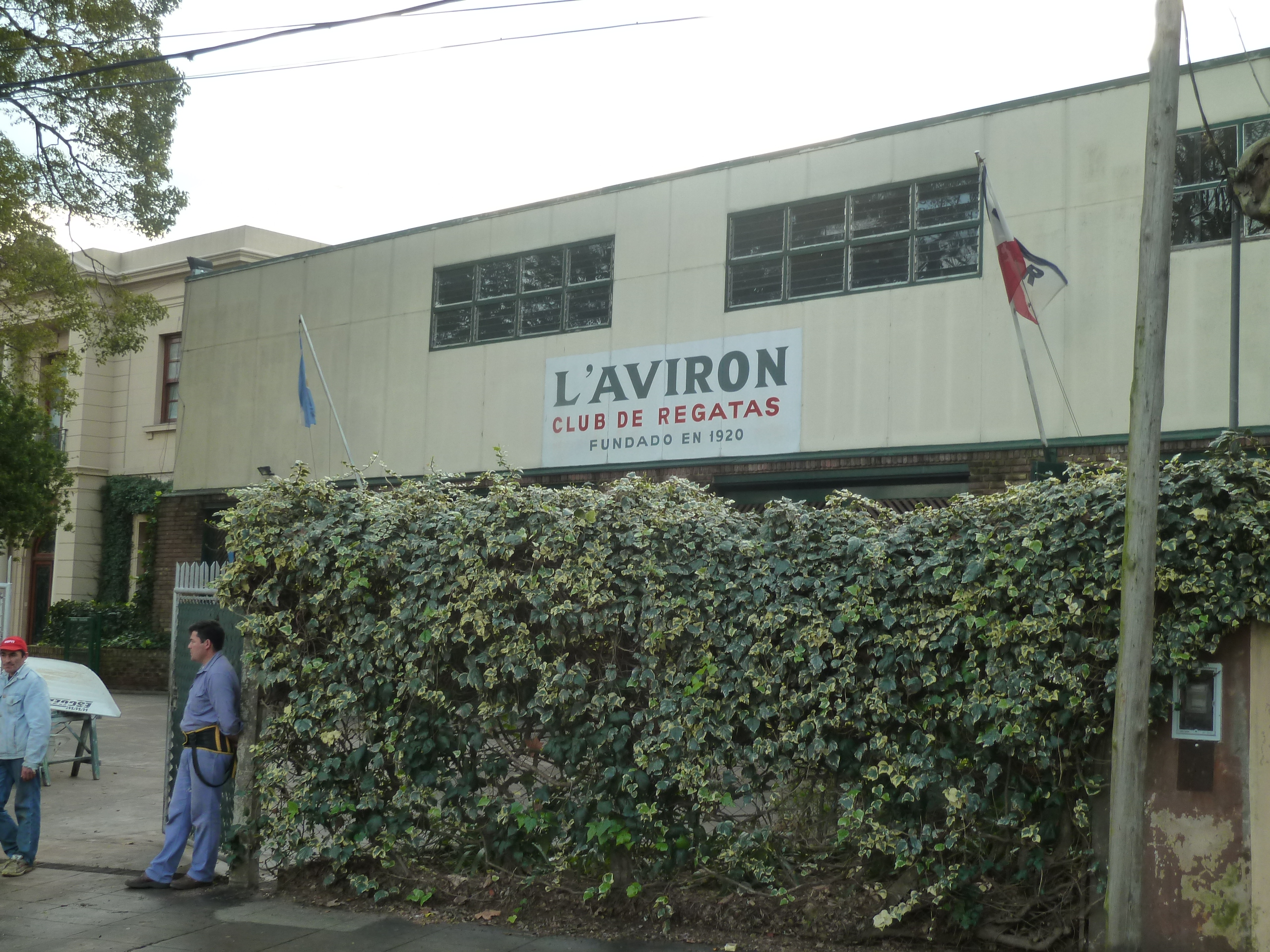 Club Regatas L'Aviron - Tigre - Buenos Aires - Argentina